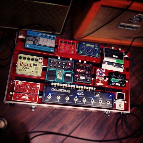 Pedal Board of Lucas Silveira (Fresno)